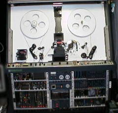 Rank Cintel Mark 3 My Own Work